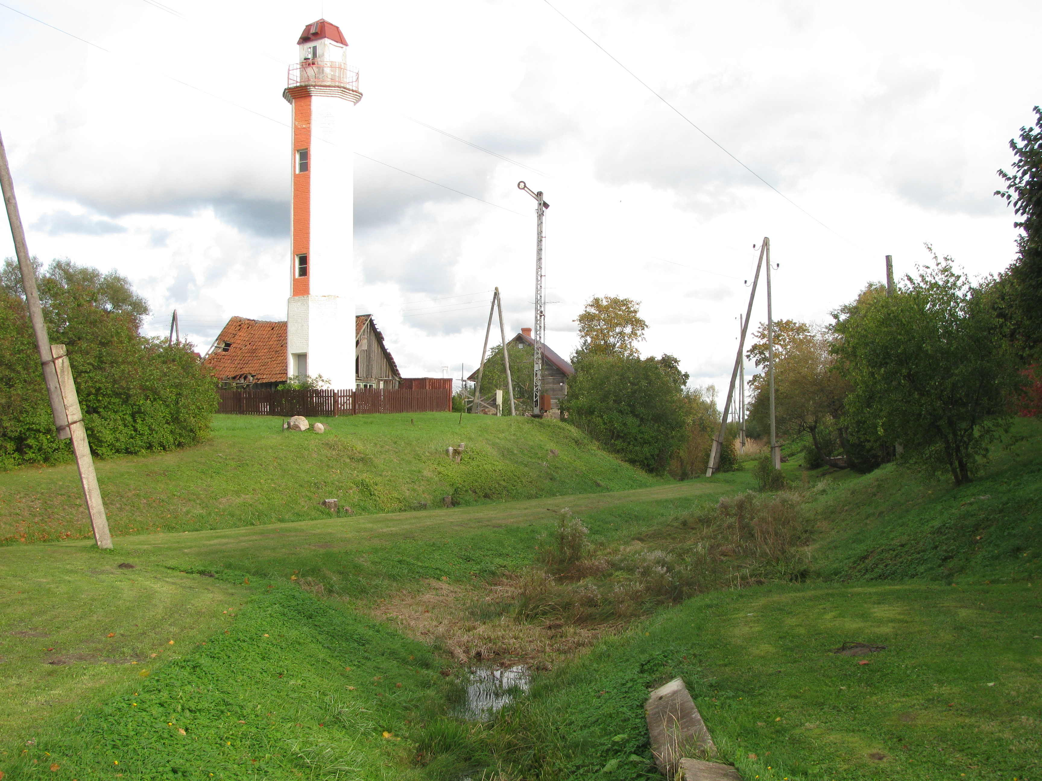 Dismantled railway and lighthouse in Ainaži